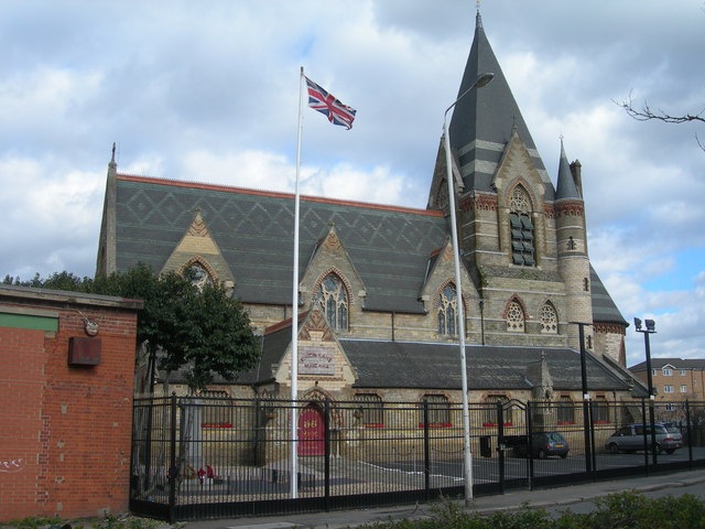 Brick Lane Music Hall This is on North Woolwich Road.